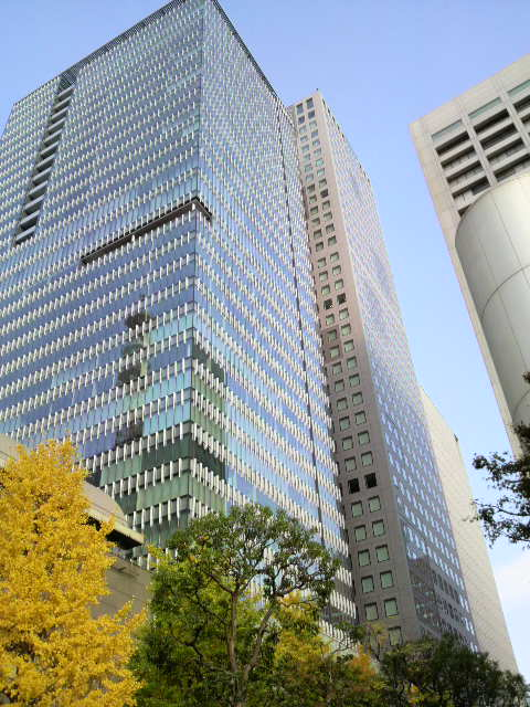 keidanrenbil